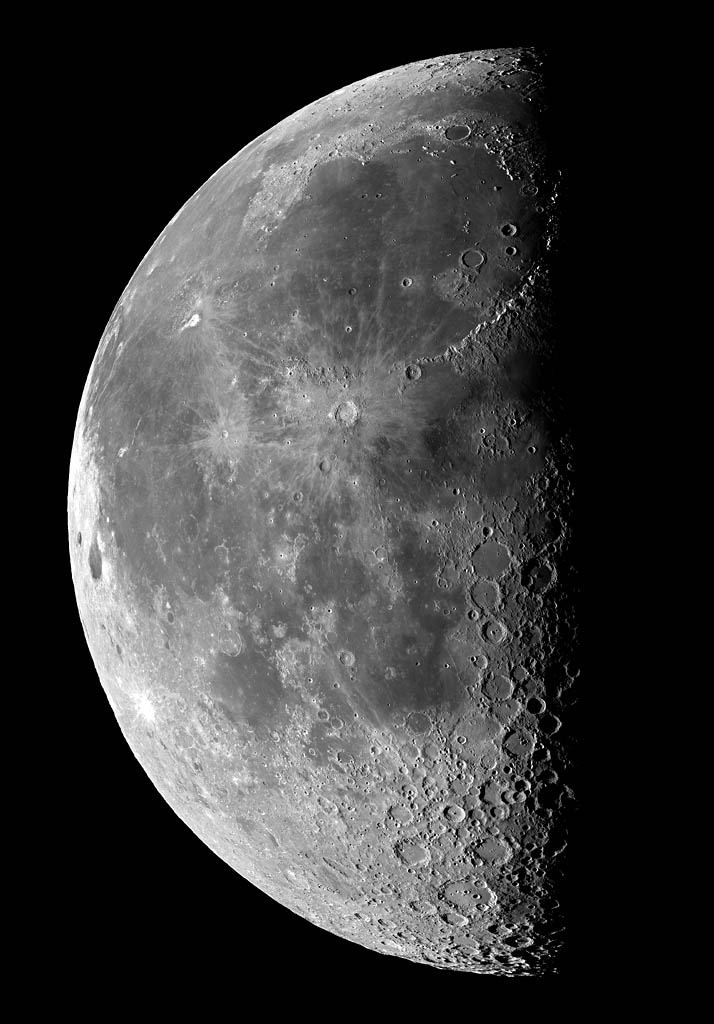 Half moon taken with SCT C9.25 and Toucam. Mosaic made of 43 single images.